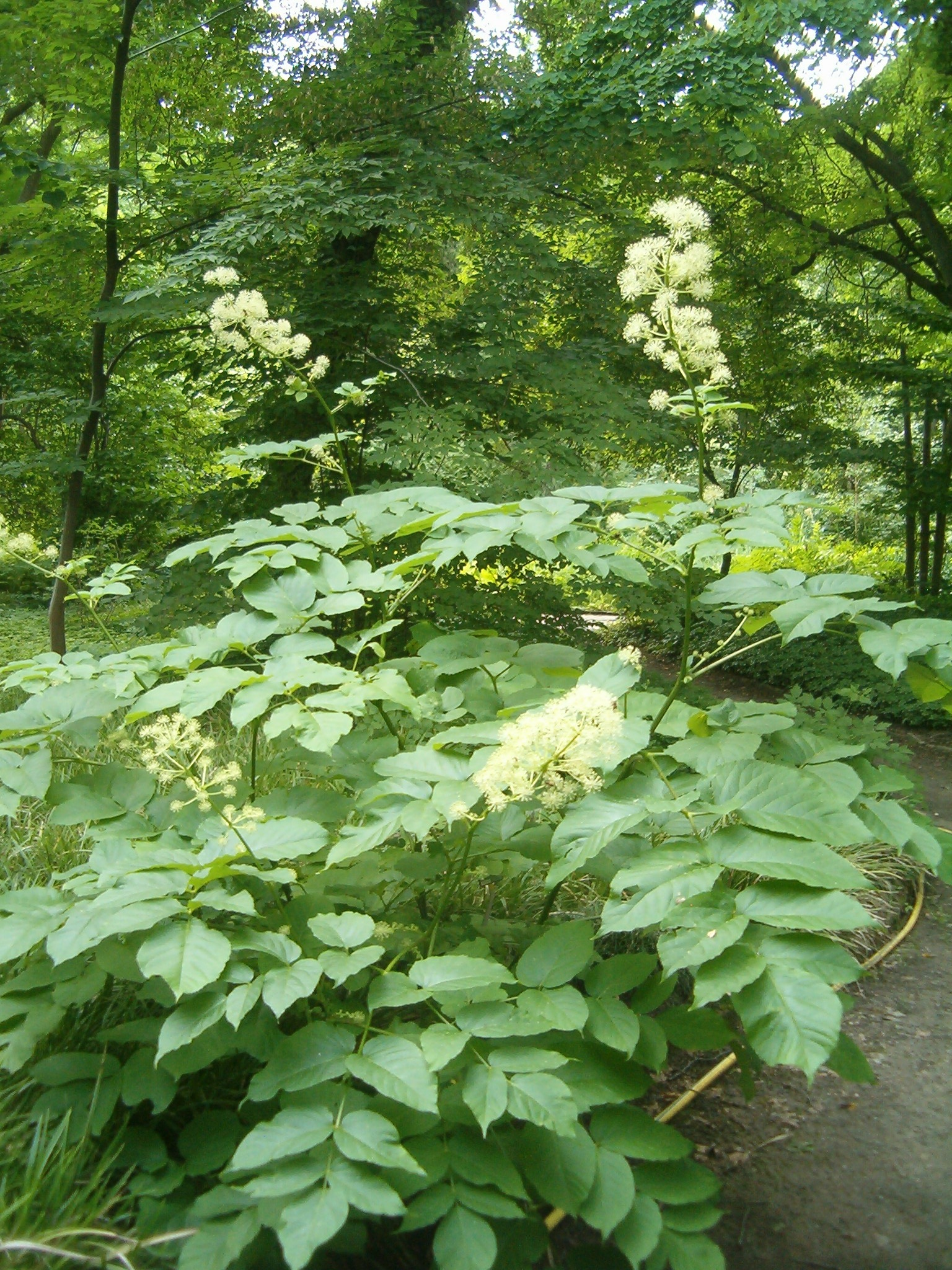 At Botanical Gardens Berlin-Dahlem Species Aralia cordata